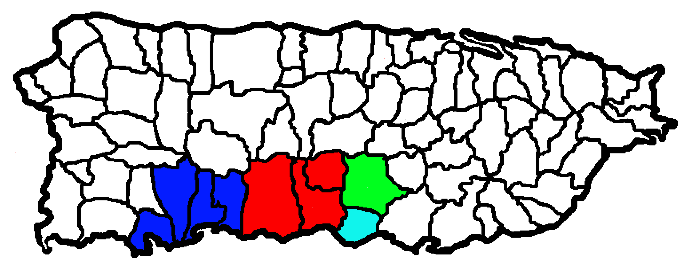 Components of the Ponce-Yauco-Coamo Combined Statistical Area. Ponce Metropolitan Statistical Area Yauco Metropolitan Statistical Area Coamo Micropolitan Statistical Area Santa Isabel Micropolitan Statistical Area Created with the GIMP.